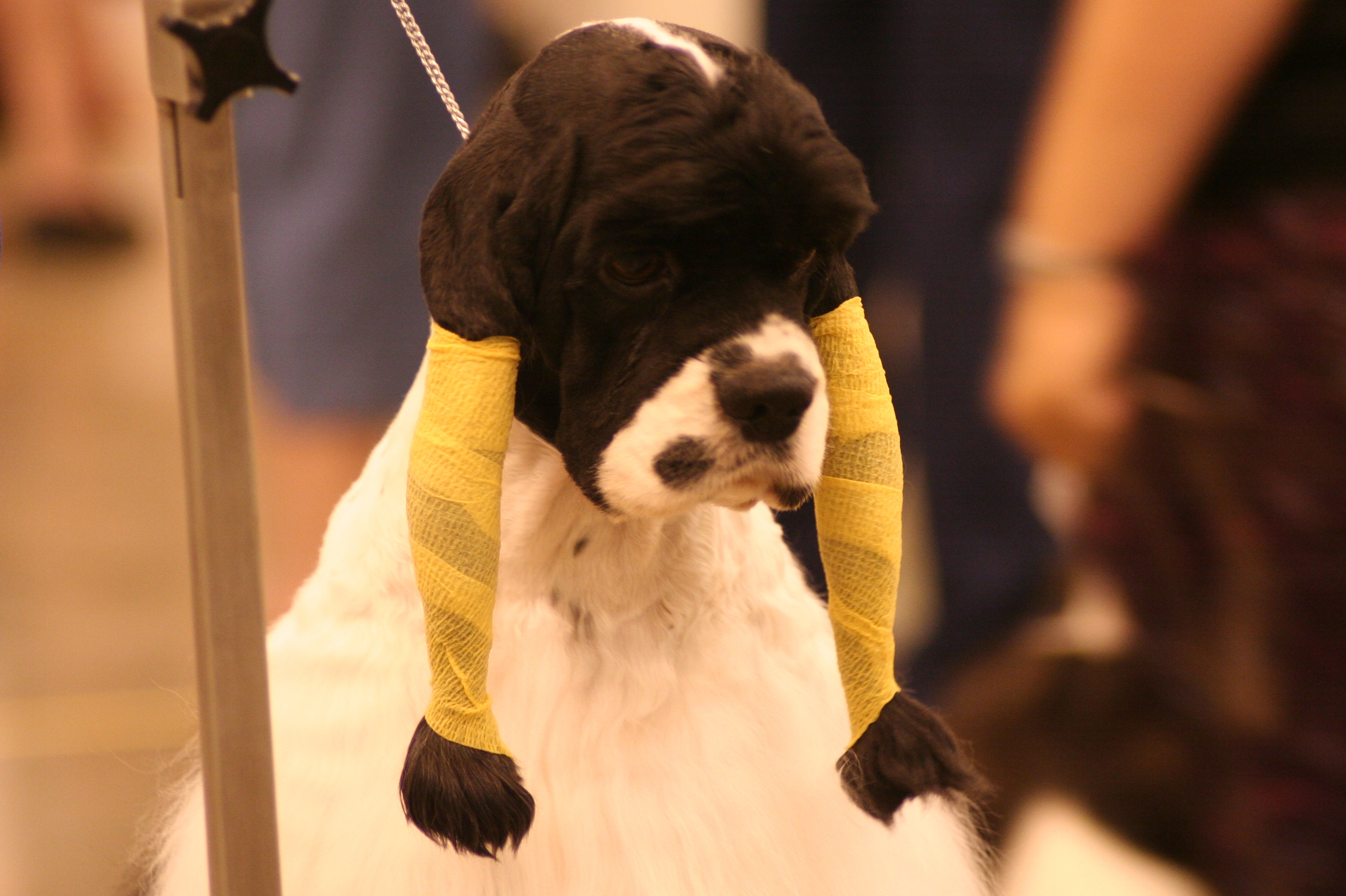 An American Cocker Spaniel with its ears wrapped in preparation for a dog show. The ears are wrapped to prevent them from getting into the dog's food and water. Photo taken at the American Kennel Club World Series at Reliant Park in Houston, Texas, USA.